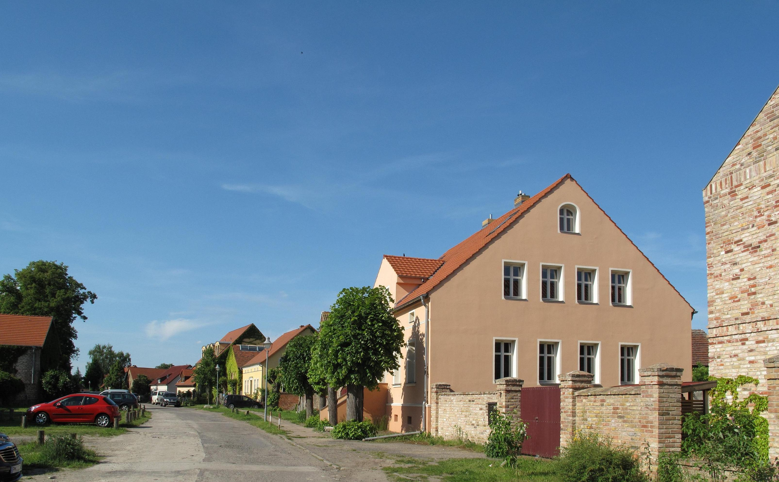 Dorfstraße (german for: village street) in Wildenbruch. Wildenbruch is a part of Michendorf in the district Potsdam-Mittelmark, state Brandenburg, Germany.